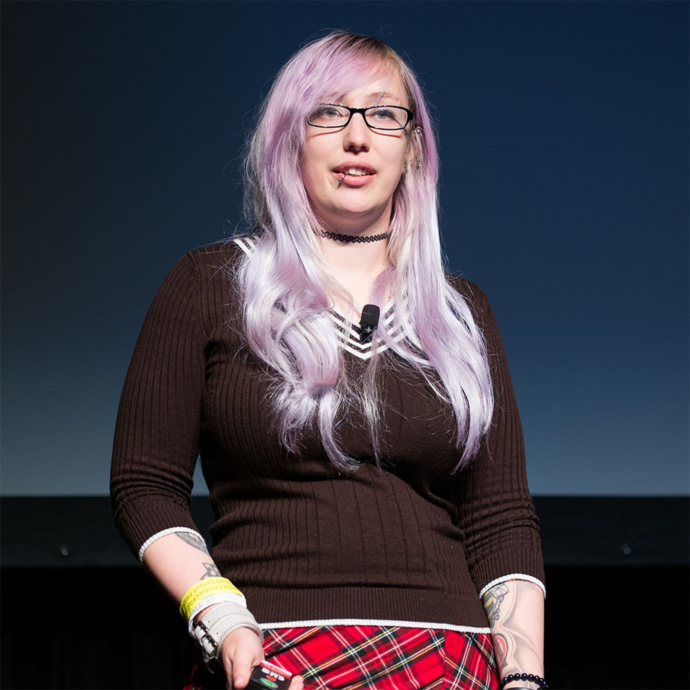 Zoë Quinn speaks at XOXO Festival 2015 in Portland, Oregon.